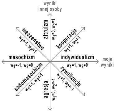 social value orientations